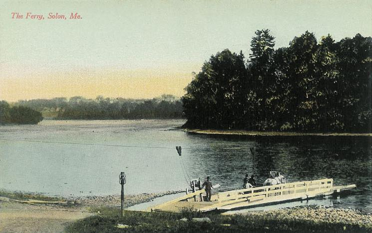 The Ferry, Solon, ME; from a c. 1908 postcard published by J. H. Rowell, Solon, Maine.